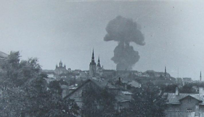 Battles on the outskirts of the city